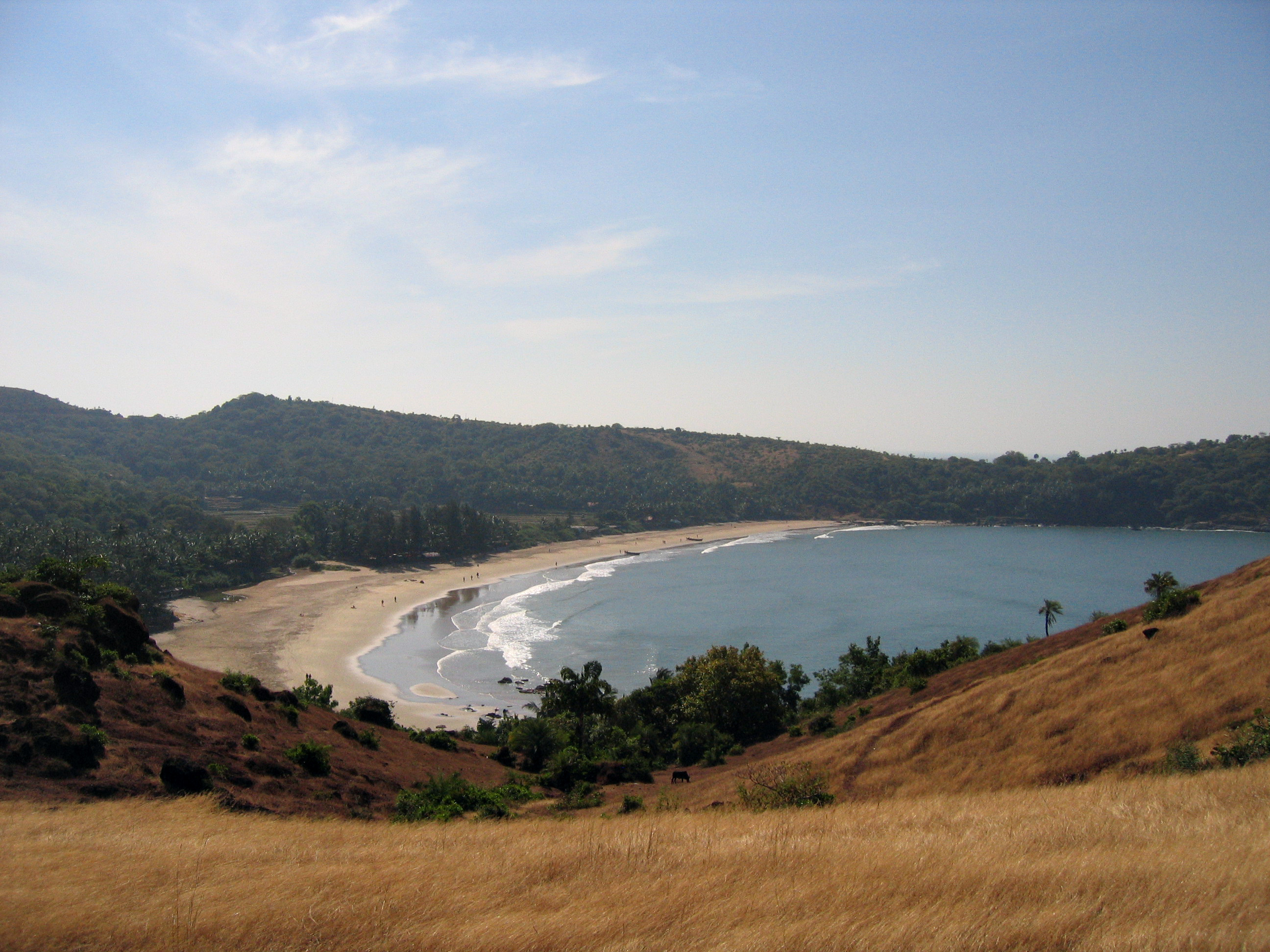 Kudle Beach, Gokarna, India